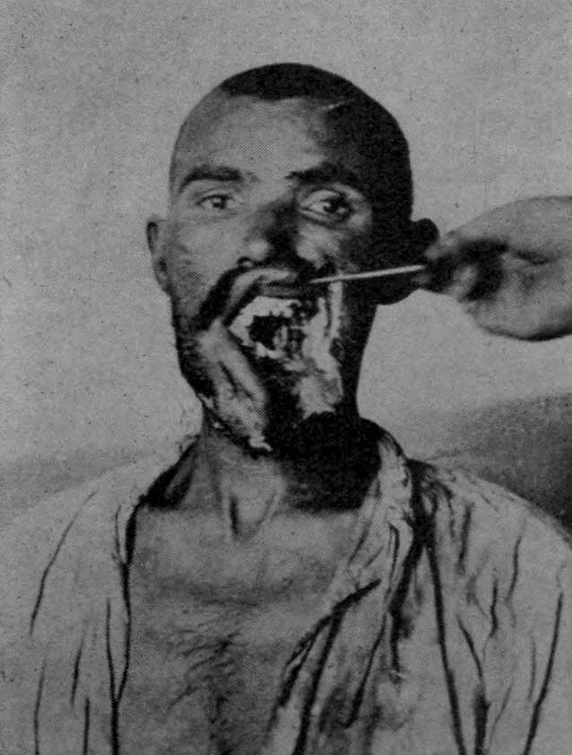 "RESULT OF A DUM-DUM BULLET." "Showing how the wounded men of Serbia need immediate medical help."